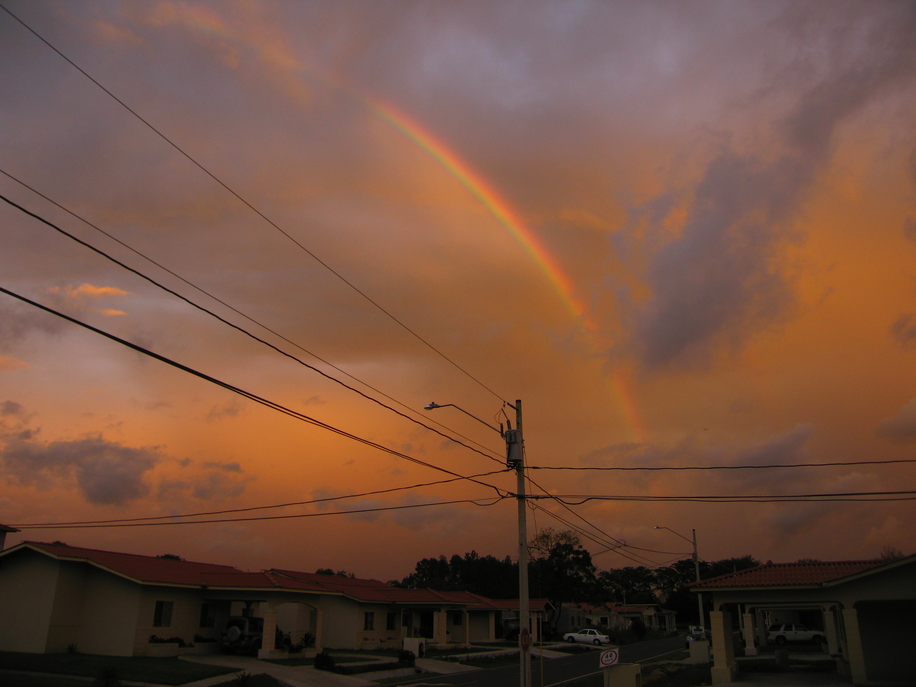 A rainbow over David, Panama